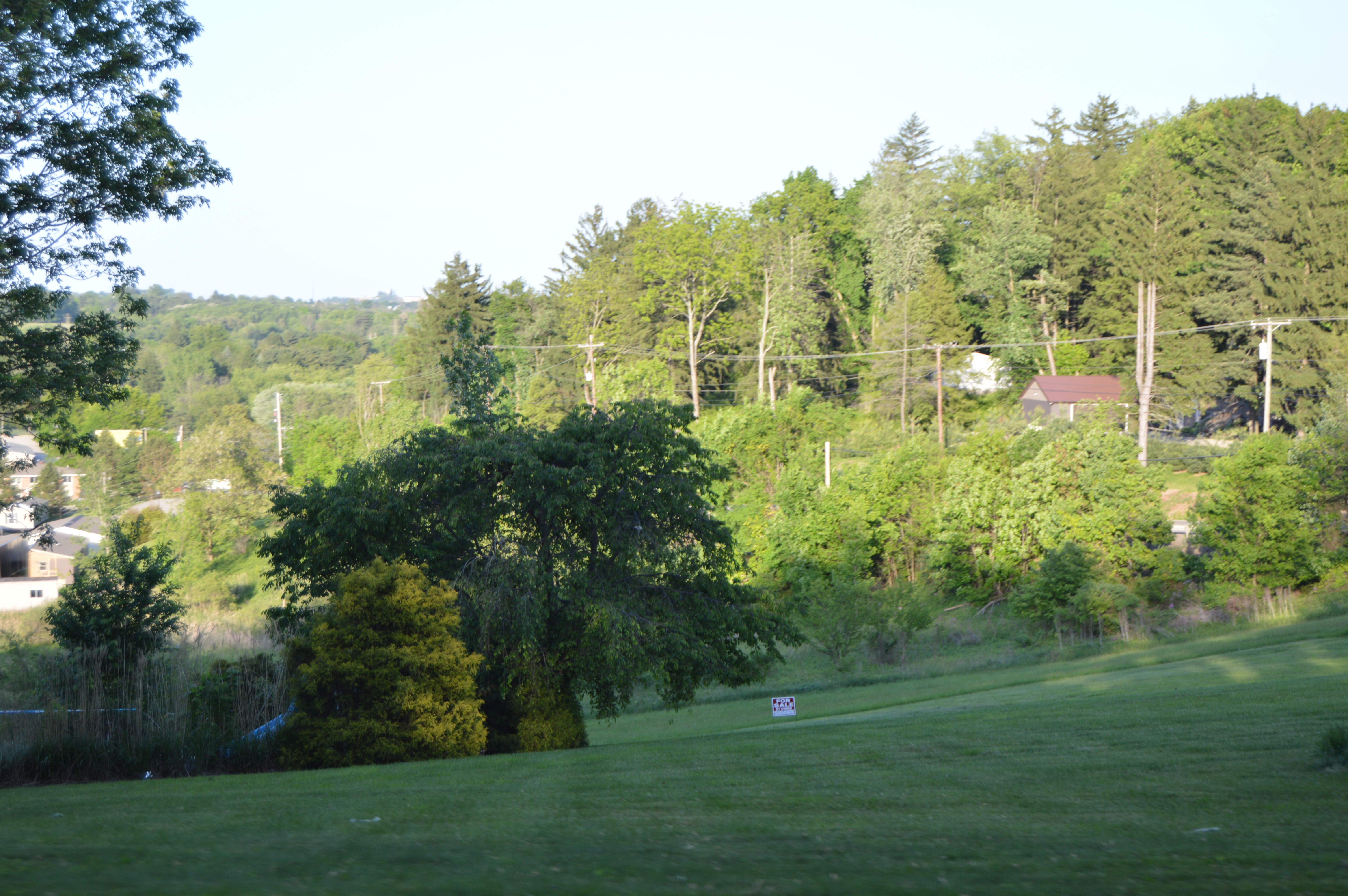 Open fields east of Vineyard Road just north of U.S. Route 40 in Richland Township, Belmont County, Ohio, United States. Much of the field area comprises the Opatrny Village Site, an archaeological site that is listed on the National Register of Historic Places.